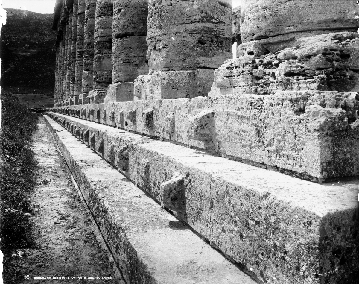 Egesta Temple, Egesta, Italy, 1895. Brooklyn Museum Archives, Goodyear Archival Collection (S03_06_01_001 image 120). Help us map this image by using Suggestify to suggest a location for it.